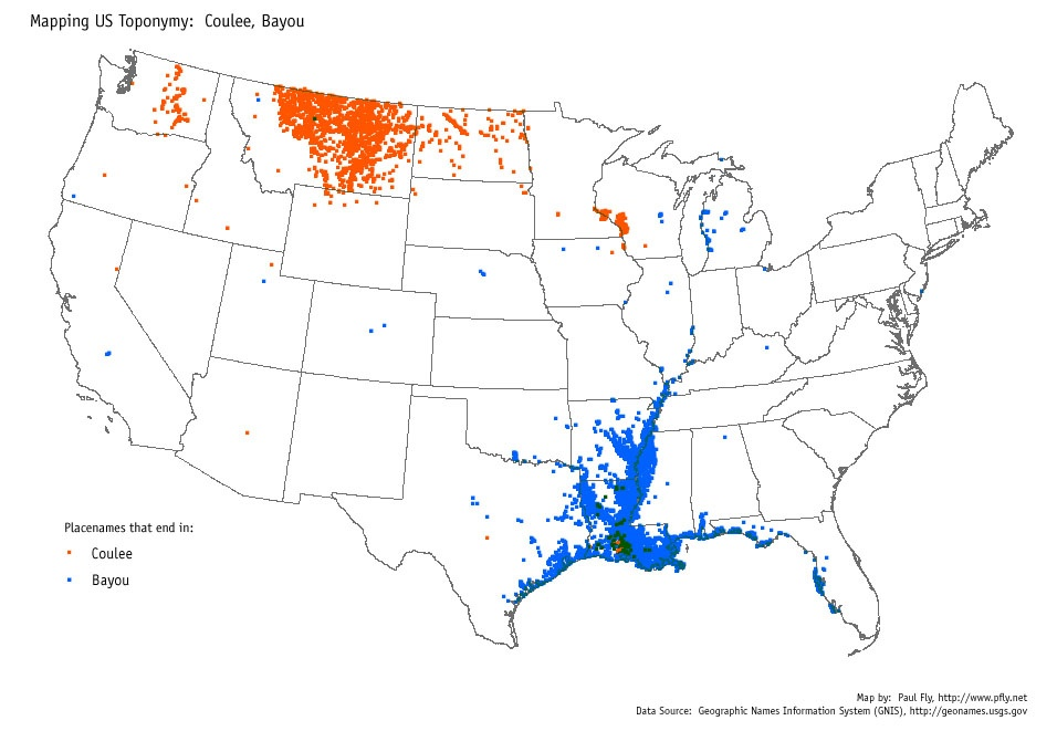 The USGS GNIS placename database was used to make this map. Place names that end in "Coulee" are shown with an orange dot, while those ending in "Bayou" get a blue dot. The term "Coulee" has different meanings in different parts of the US, mostly unrelated to the term "Bayou"—except in Louisiana, where both terms refer to streams and drainage channels. Source data, USGS GNIS placename database and ESRI's state boundary data. Software, ESRI ArcGIS.